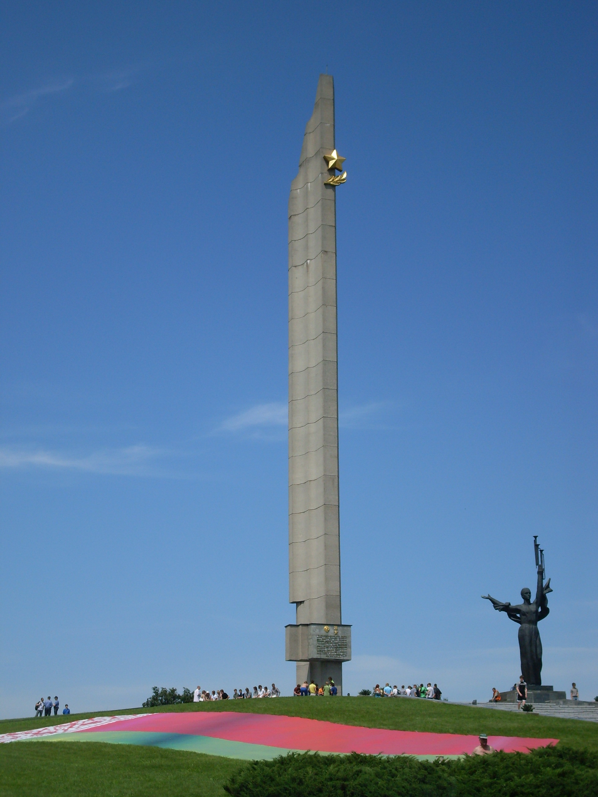 The obelisk "Minsk is the hero-city" (Belarus)